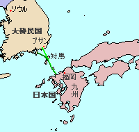 ファイル:WorldMap ja.png に由来するこの画像は、元の画像の作成者や改変者によって、それぞれが創作した部分の第三者に対する利用許諾範囲が異なります。しかし、いずれの者も、それぞれの著作権表示が適切に行われていれば、利用許諾についてGFDLが要求しない条件を付していません。そのため、この画像の二次的著作物をGFDLのもとで利用することが可能です Note: this file was duly licenced under GFDL at the Japanese Wikipedia as per the following below. The GFDL licence is thus transferable to any other Wikipedia. original file name: WorldMap ja.png File: WorldMap ja.png This image is derived from, or modified by the creator of the original image with a different range of third-party license for each part of creation. However, the one who, if done correctly and copyright notice, the GFDL license is not required by the attached no conditions. Therefore, the derivative works of this GFDL images can be used under. (machine translation, original text follows:) ファイル: に由来するこの画像は、元の画像の作成者や改変者によって、それぞれが創作した部分の第三者に対する利用許諾範囲が異なります。しかし、いずれの者も、それぞれの著作権表示が適切に行われていれば、利用許諾についてGFDLが要求しない条件を付していません。そのため、この画像の二次的著作物をGFDLのもとで利用することが可能です。